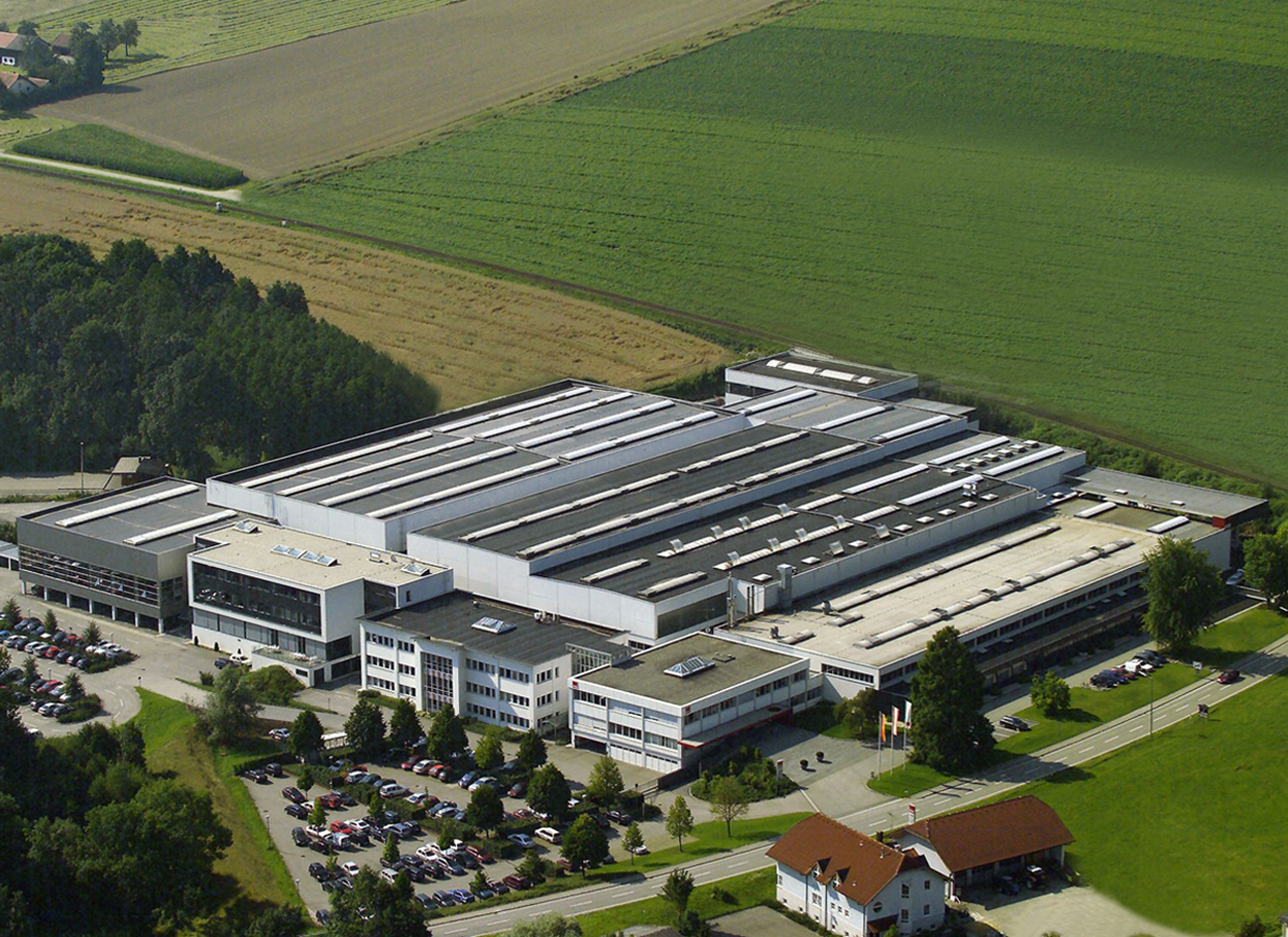 Fill 2006, 345 employees